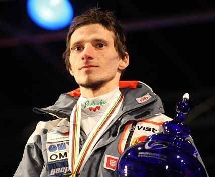 Robert Kranjec during individual competition of FIS Ski-Flying World Championships 2012 award ceremony